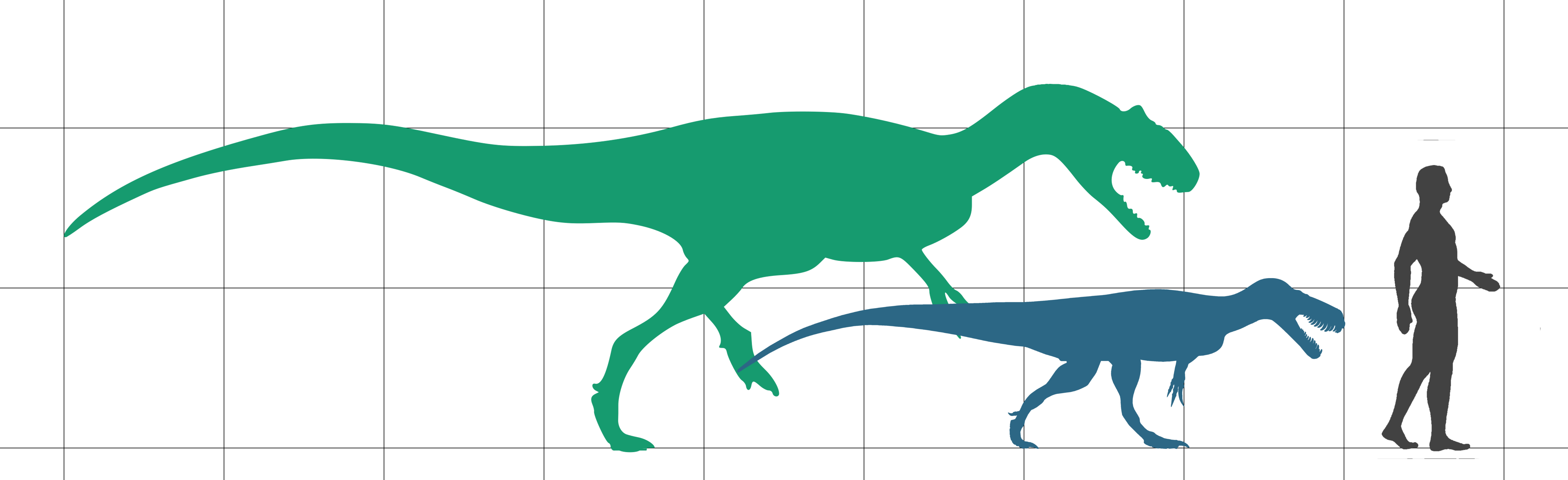 Size comparison of the native Langenburg torvosaur (blue) and migrant Langenburg allosaur (green)